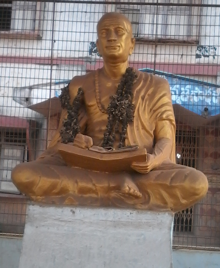 chellapilla venkata sastry statue at zp high school ground, kadiyam